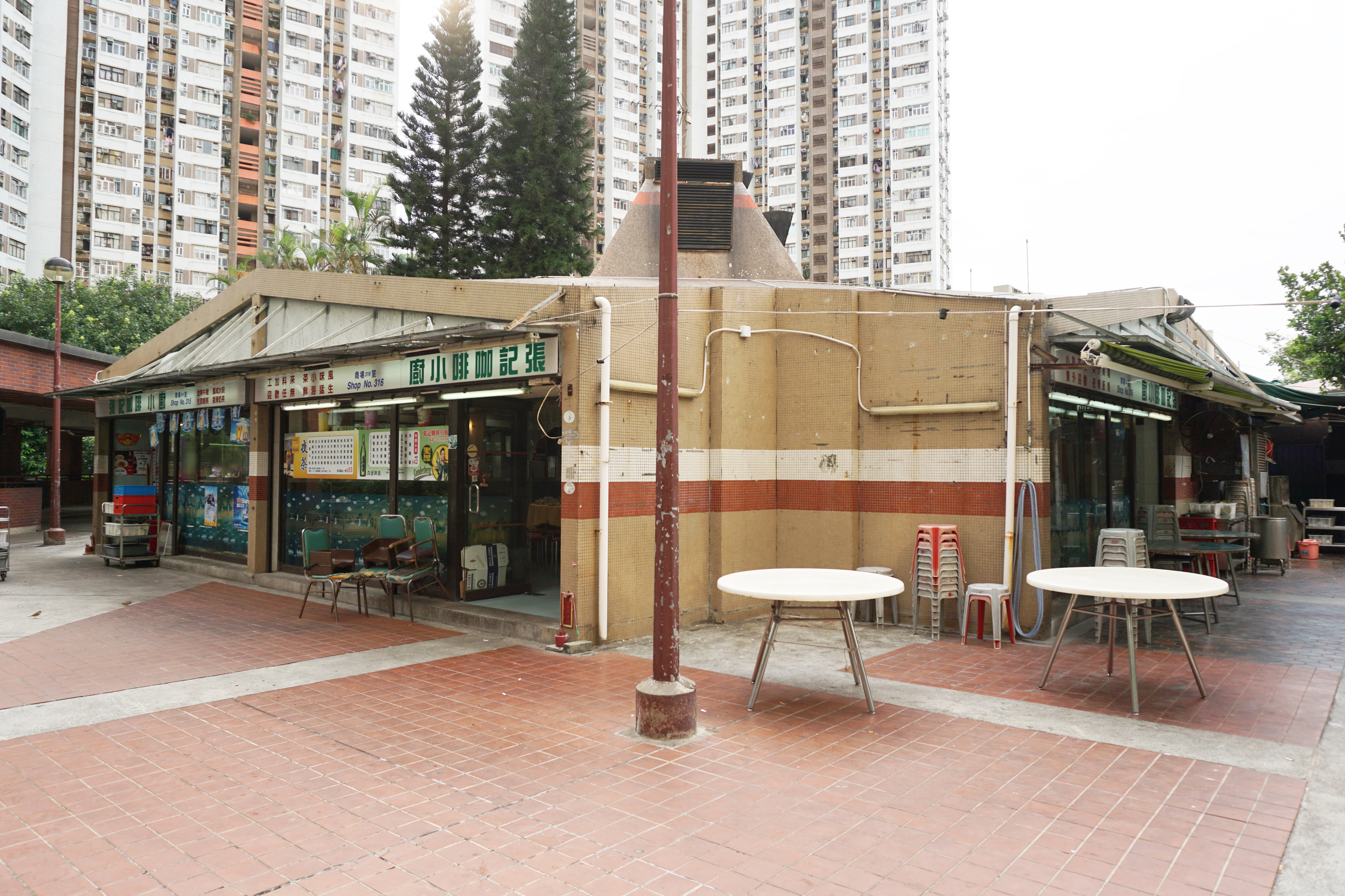 Lei Tung Estate in Ap Lei Chau, Hong Kong.